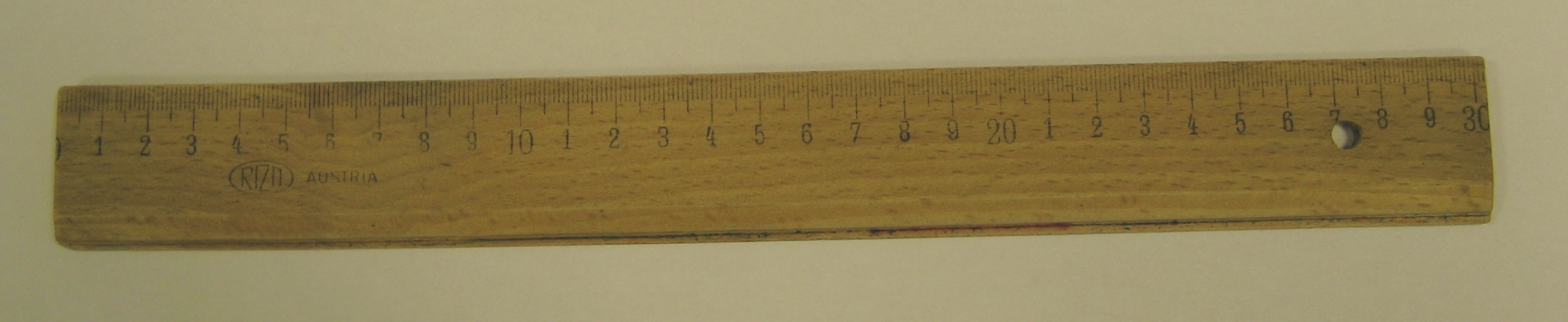 A wooden ruler